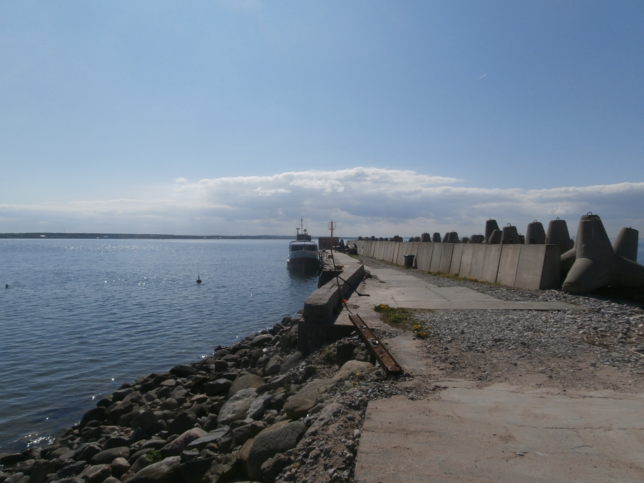 Vesta at quay 1 in Port of Aegna, Tallinn 20 May 2016